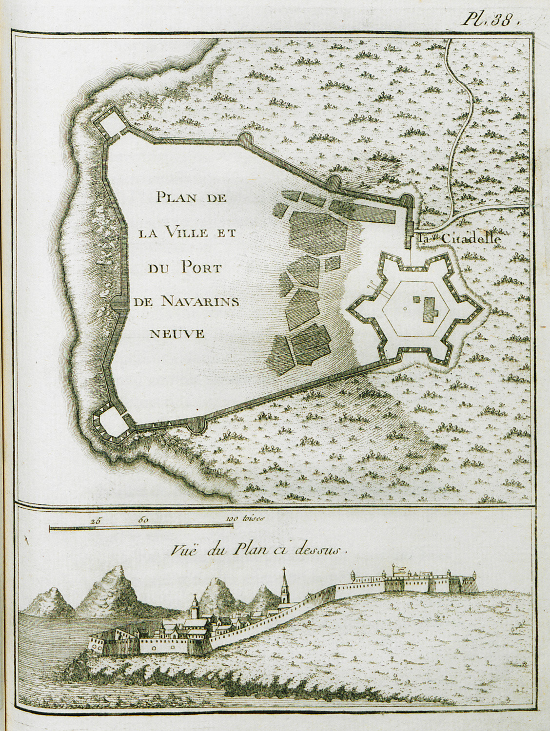 Plan de la ville et du port de Navarins neuve - Bellin Jacques-nicolas - 1771